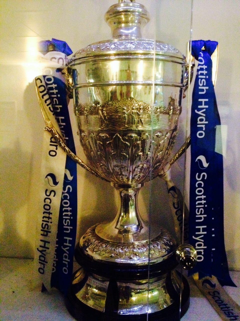 The Camanachd Cup - The Blue Riband prize in Shinty, taken in the Balavil Hotel, Newtonmore